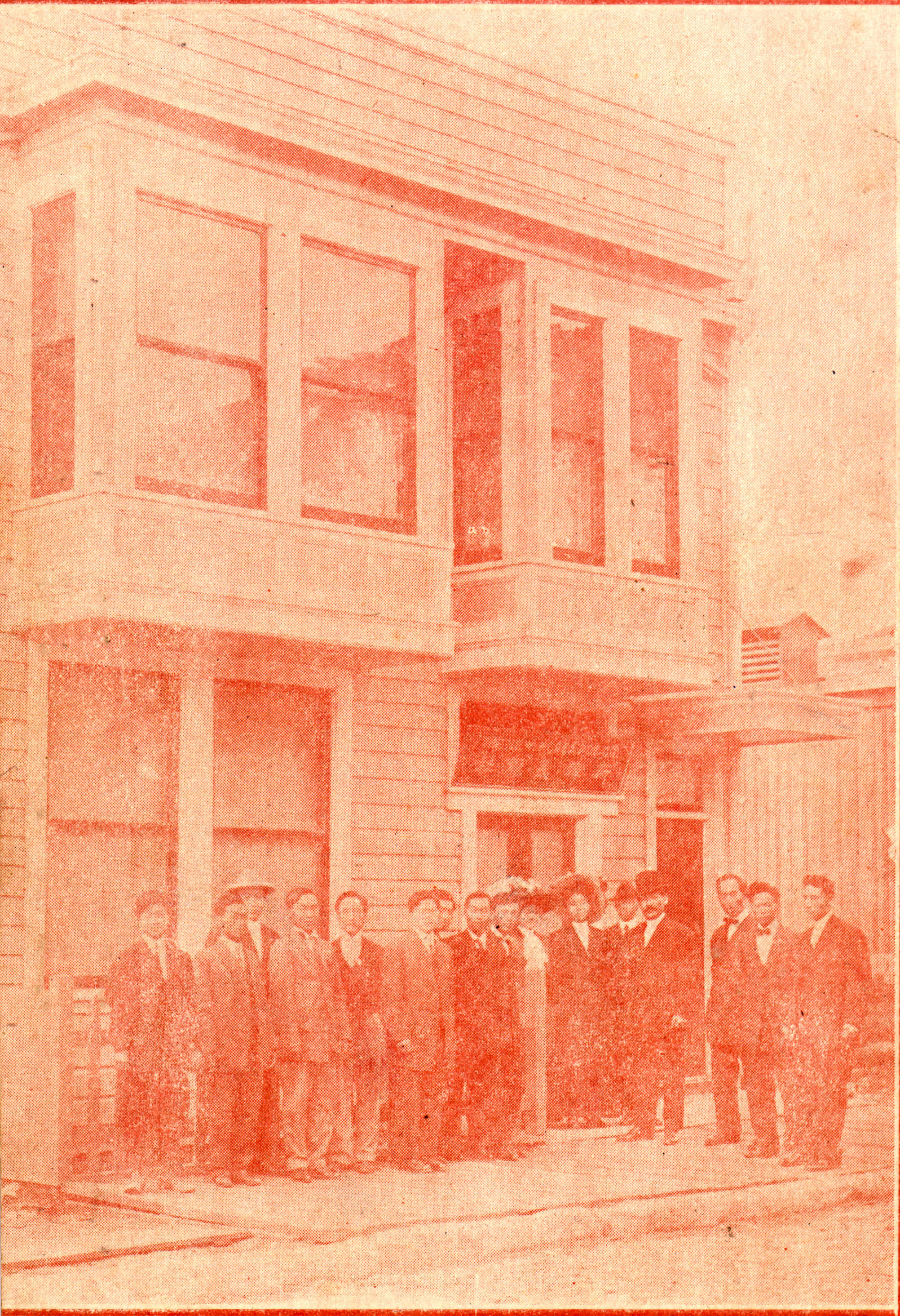 Sinhan Minbo offices, San Francisco Publisher (of the digital version): University of Southern California. Libraries Repository name: East Asian Library, University of Southern California Series: Annie Chung Nakayama Legacy record ID: kada-m22282 Rights: © 2000 University of Southern California University Libraries; May not be copied without permission of the Korean Heritage Library, University of Southern California.; From the photographic collection of the Korean American Archive; Korean American Archive Part of subcollection: Korean American Archive Photograph Set Repository Access conditions: Send requests to East Asian Library, University of Southern California, Los Angeles, CA 90089-0154 or . Coverage date: 1911 Repository address: Los Angeles, CA 90089-1825 Part of collection: Korean American Digital Archive Filename: KADA-ChungA010a; KADA-ChungA010b Type: images Identifying number: subset023/photo005 Contributing entity: University of Southern California Subject (corporate name): Sinhan minbo (Los Angeles, Calif.)